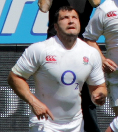 Alex Corbisiero playing for England against the Barbarians in 2013.